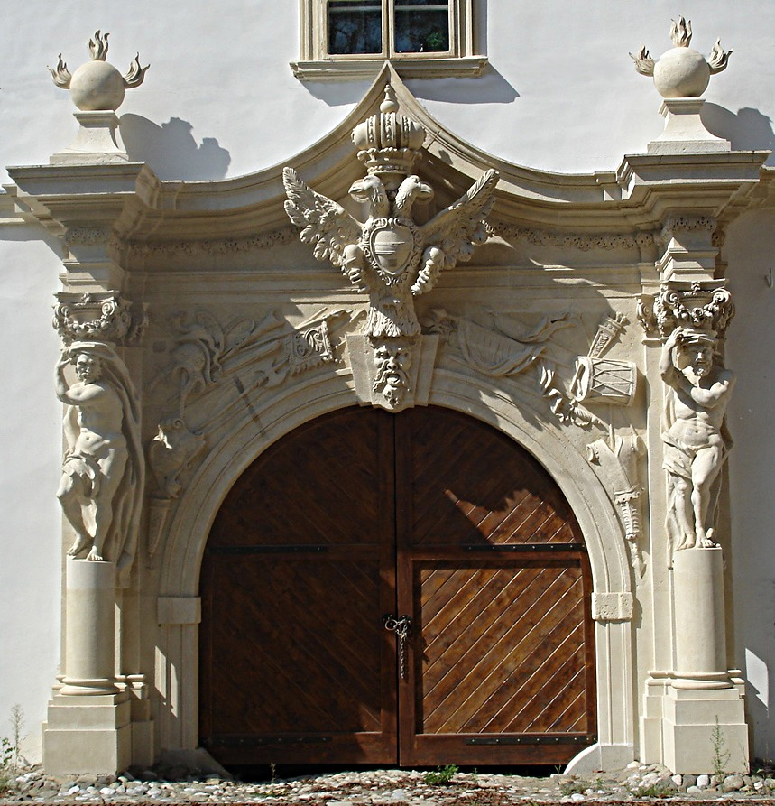 Door with atlants - in the Alba Iulia fortification